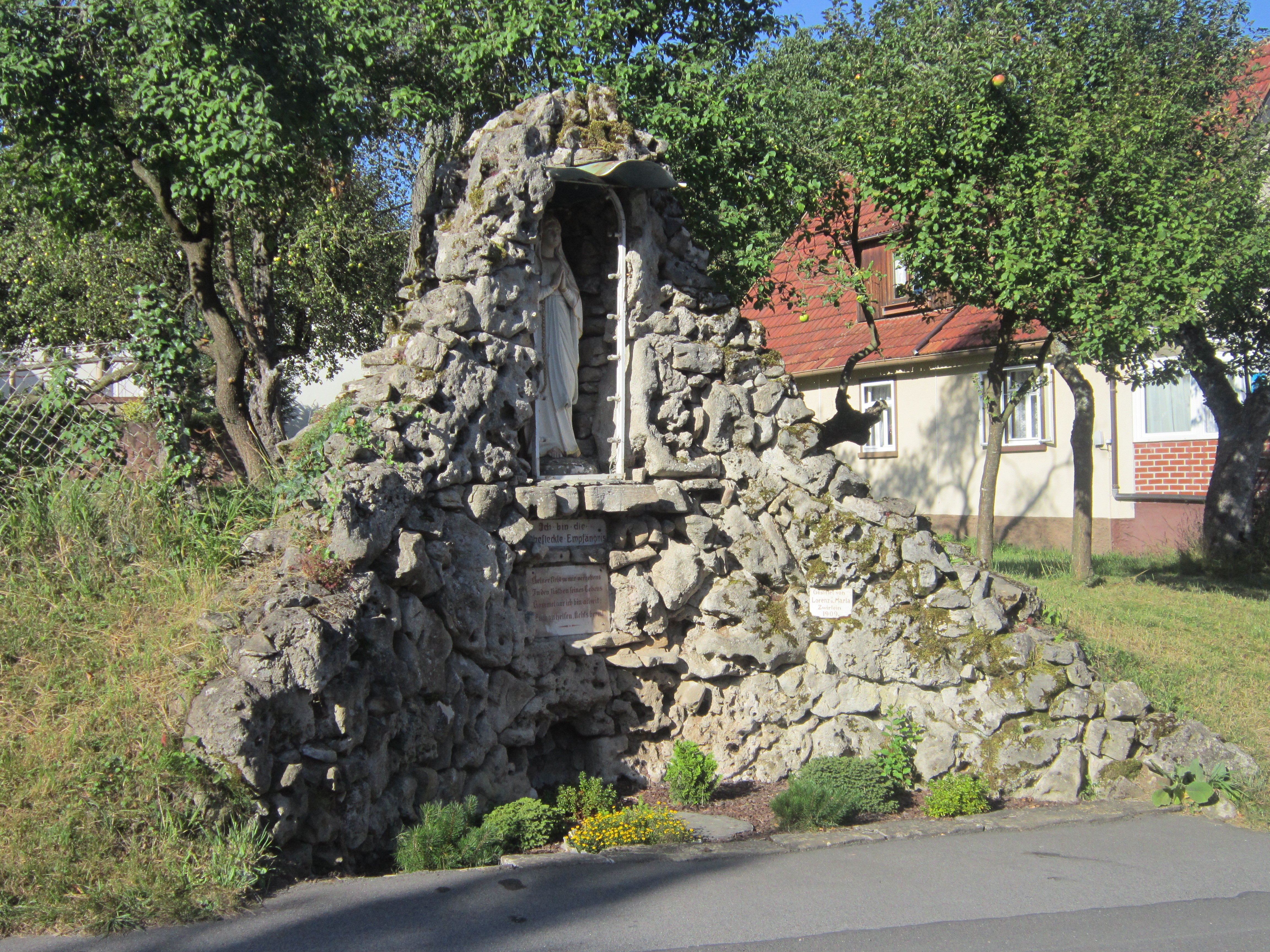 Lourdes Grotto in Winkels, a quarter of the German spa town of Bad Kissingen in Lower Franconia (Bavaria).